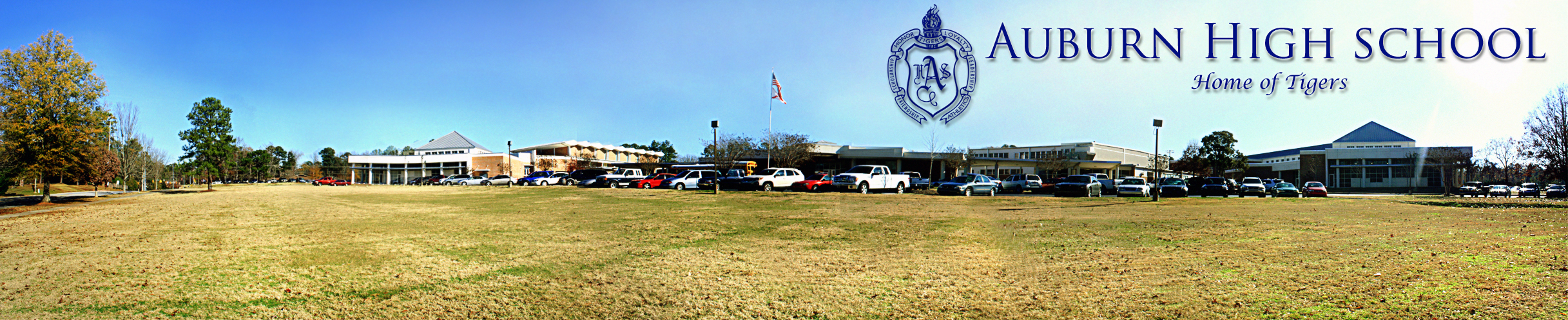 Paranomic image of Auburn High School campus